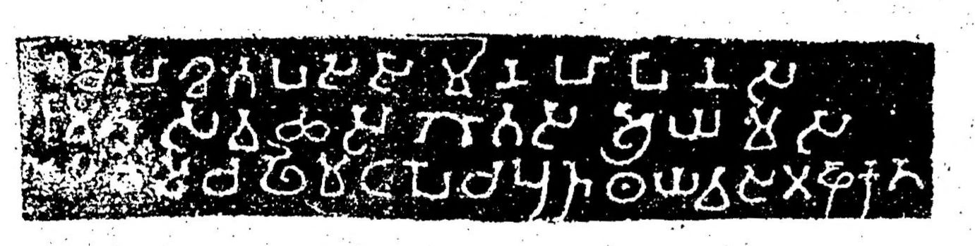 Manmodi Bhimasankar inscription of Nahapana. [Rano]jmahakhatapasa saminahapanasa [A]matyasa Vachhasagotasa Ayamasa [de]yadhama cha [po?] dhi matapo cha punathaya vase 46 kato "The meritorious gift of a mandapa and cistern by Ayama of the Vatsa-gotra, Prime Minister to the king, the great Satrap, the Lord Nahapana, made for merit, in the year 46."